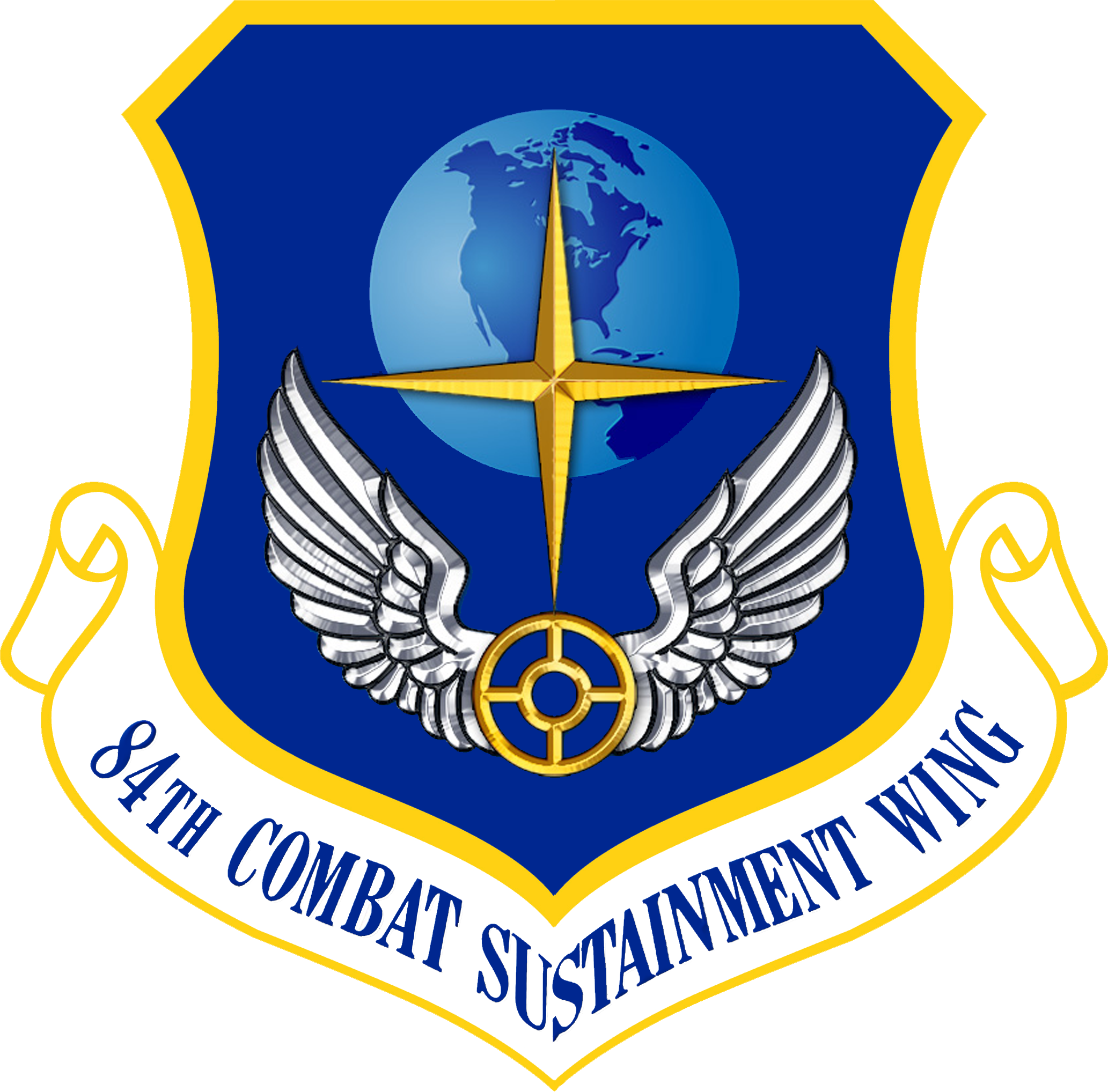 Emblem of the 84th Combat Sustainment Wing, a wing of the United States Air Force